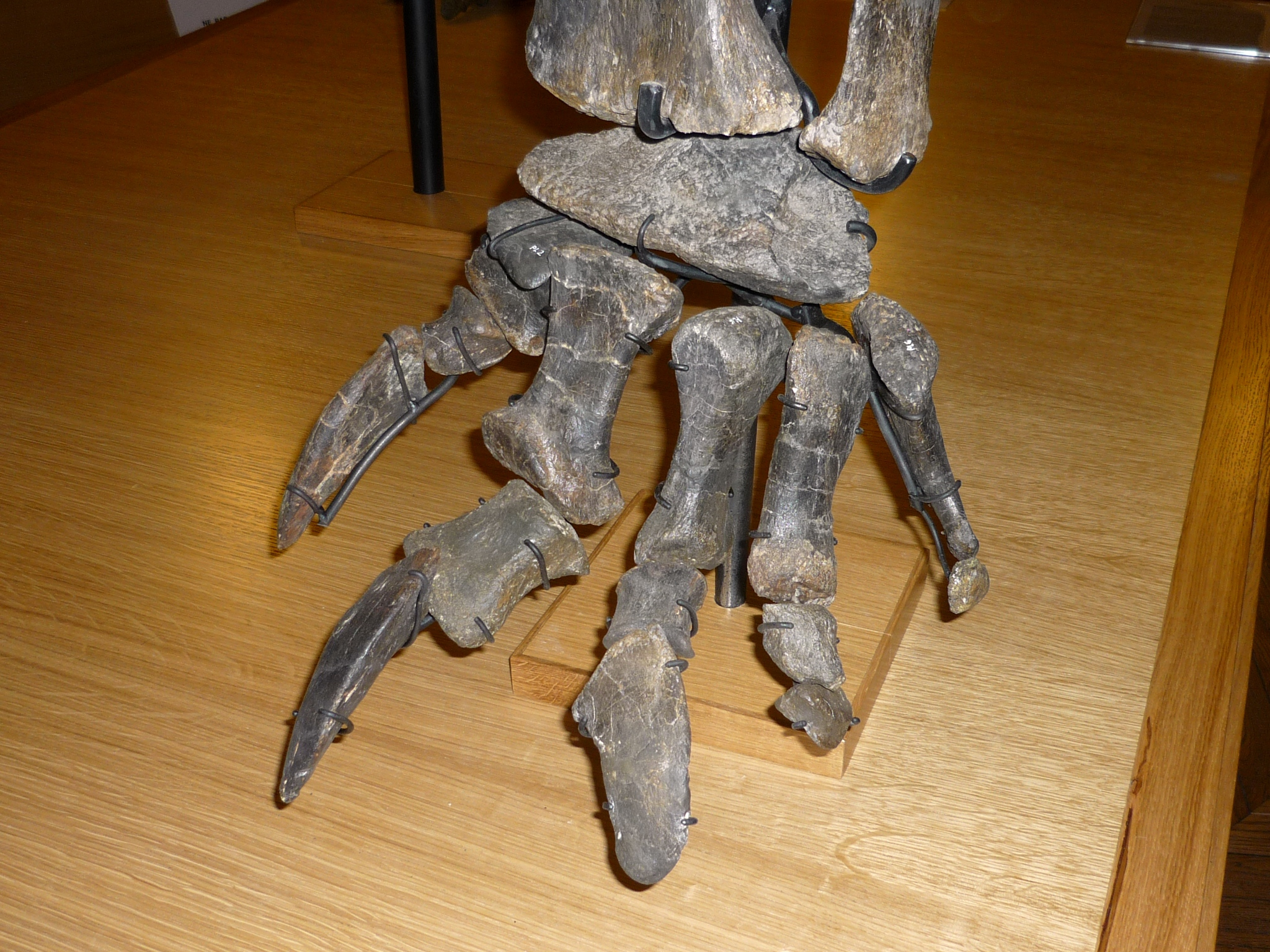 Hindlimb of Suuwassea emiliae, Institut de paléontologie humaine, Paris, France